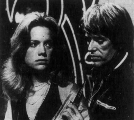 Gretchen Corbett and Jack Calvin in Knuckle (1975)